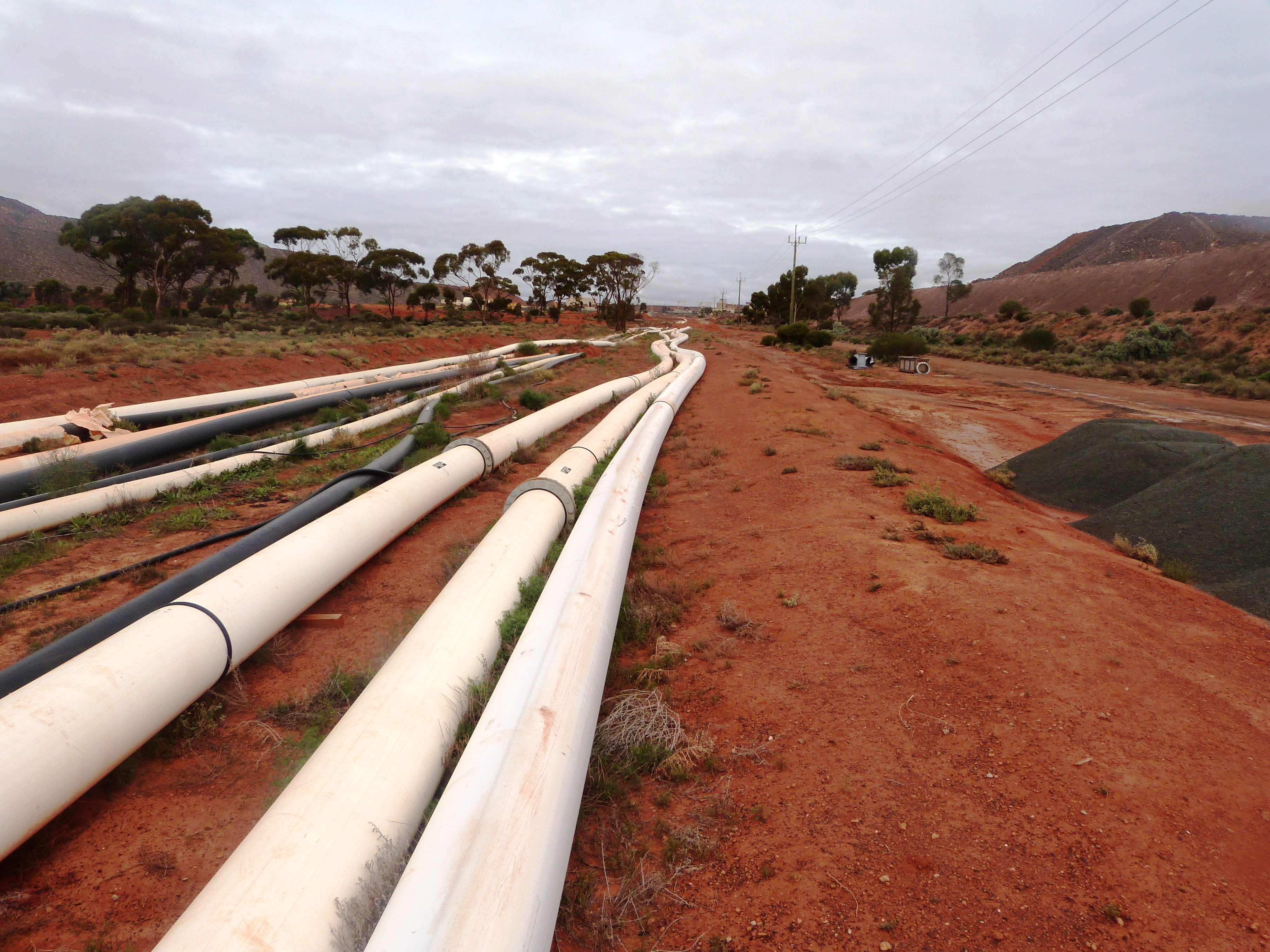 HDPE Pipeline in a harsh Australian environment, used for transporting water to a mine site.